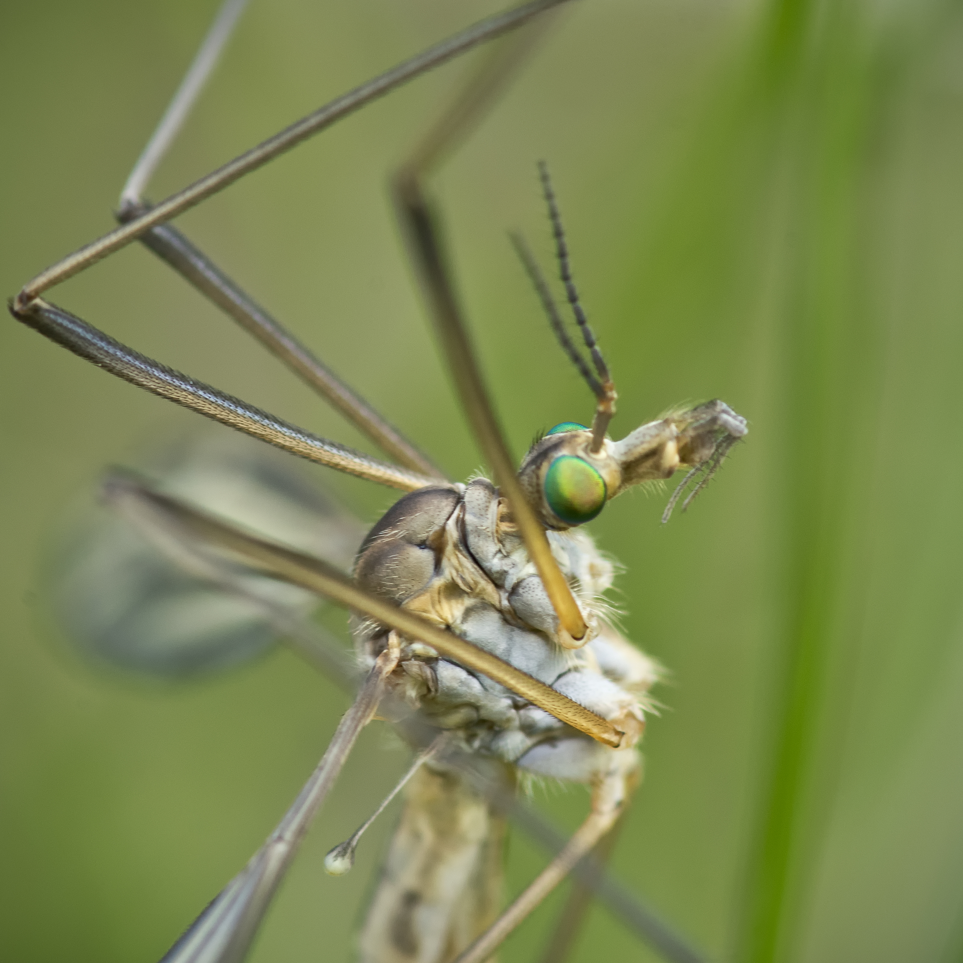 One of the things I like about insect macro photography is looking into the viewfinder and finding myself eyeball to eyeball with an insect staring back at me. On such occasions, the first thought that pops into my head is usually "I wonder what he's thinking?". And then I realise he's thinking exactly the same thing.